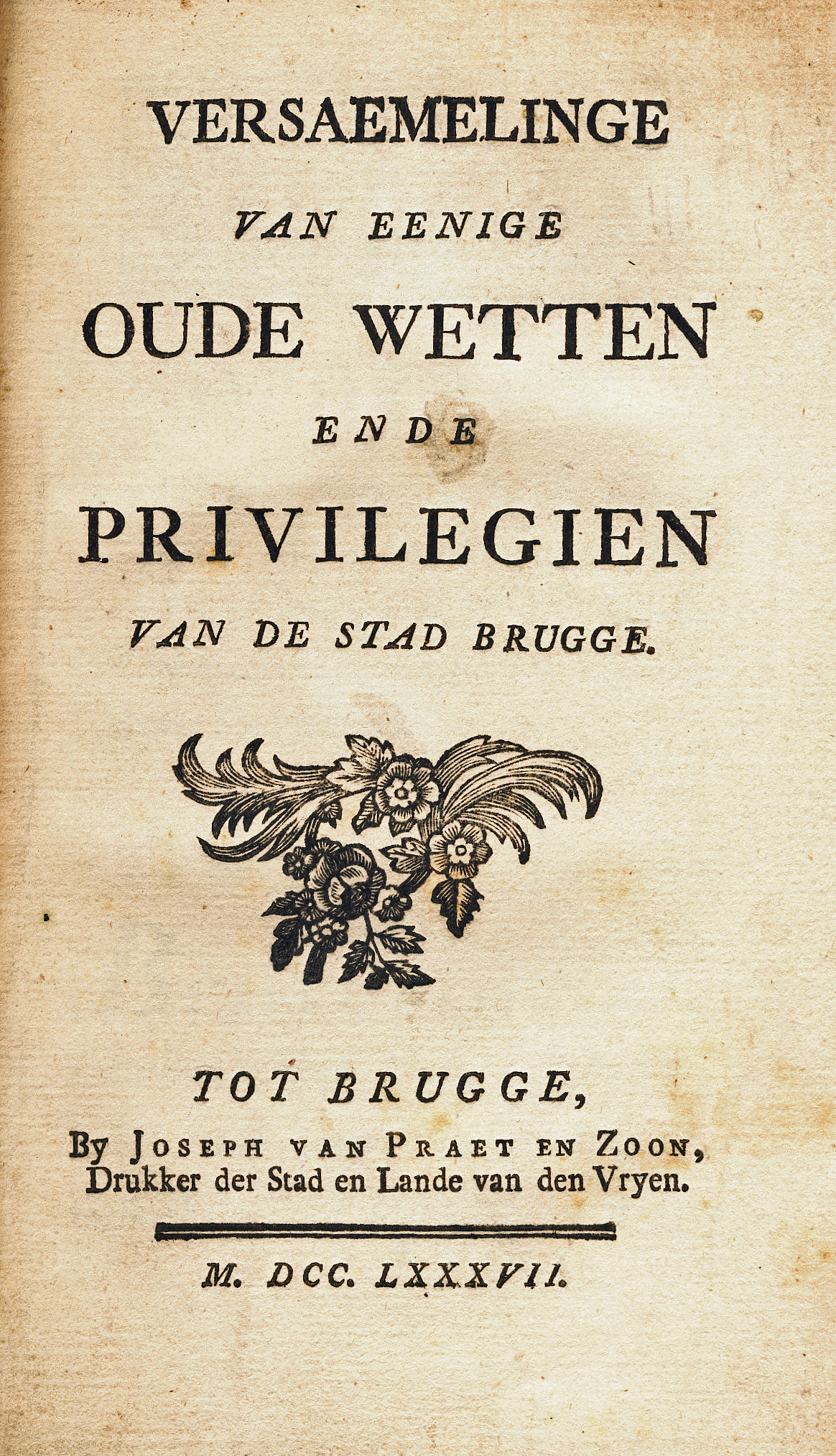 Title page of a book containing some laws and privileges of the town of Bruges (Belgium) by publisher and printer Joseph van Praet, Bruges 1787.